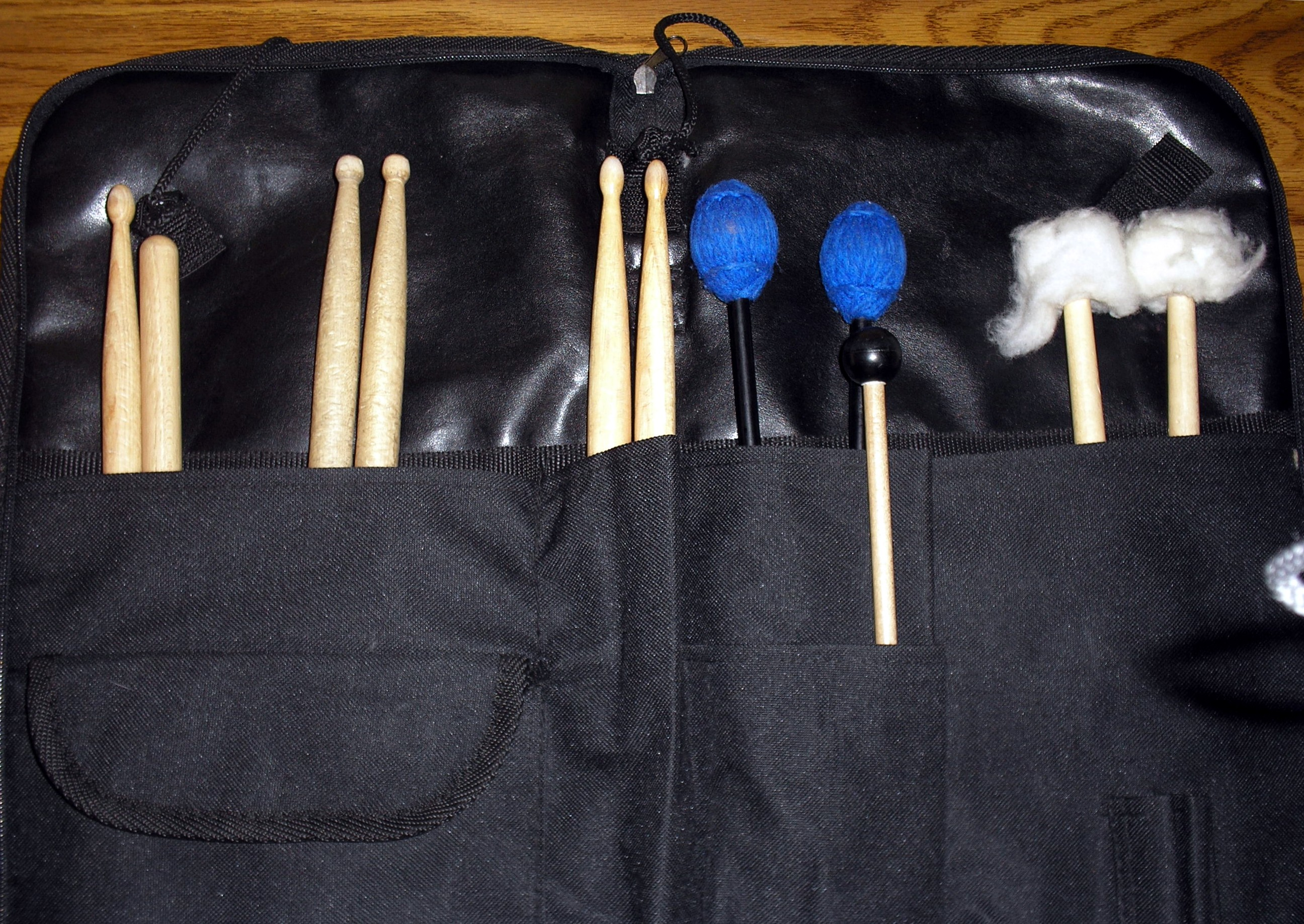 mallet bag to store mallets and drum sticks. Shows a wide variety of sticks.